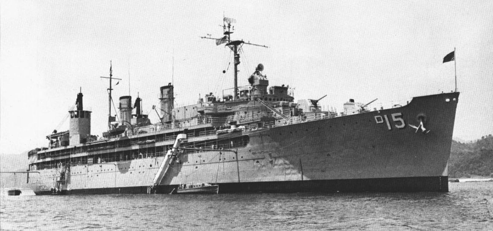 The U.S. Navy destroyer tender USS Prairie (AD-15) at anchor, in the 1960s. The photo was taken after her FRAM modernisation in 1961-62 but before the second 127 mm gun turret was removed in the mid-1060s.